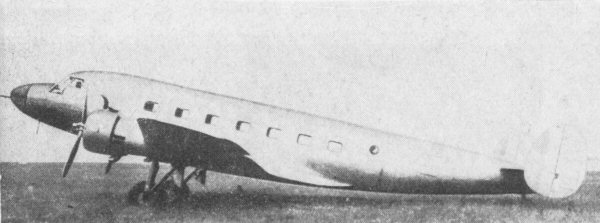 Polish airliner prototype PZL.44 Wicher